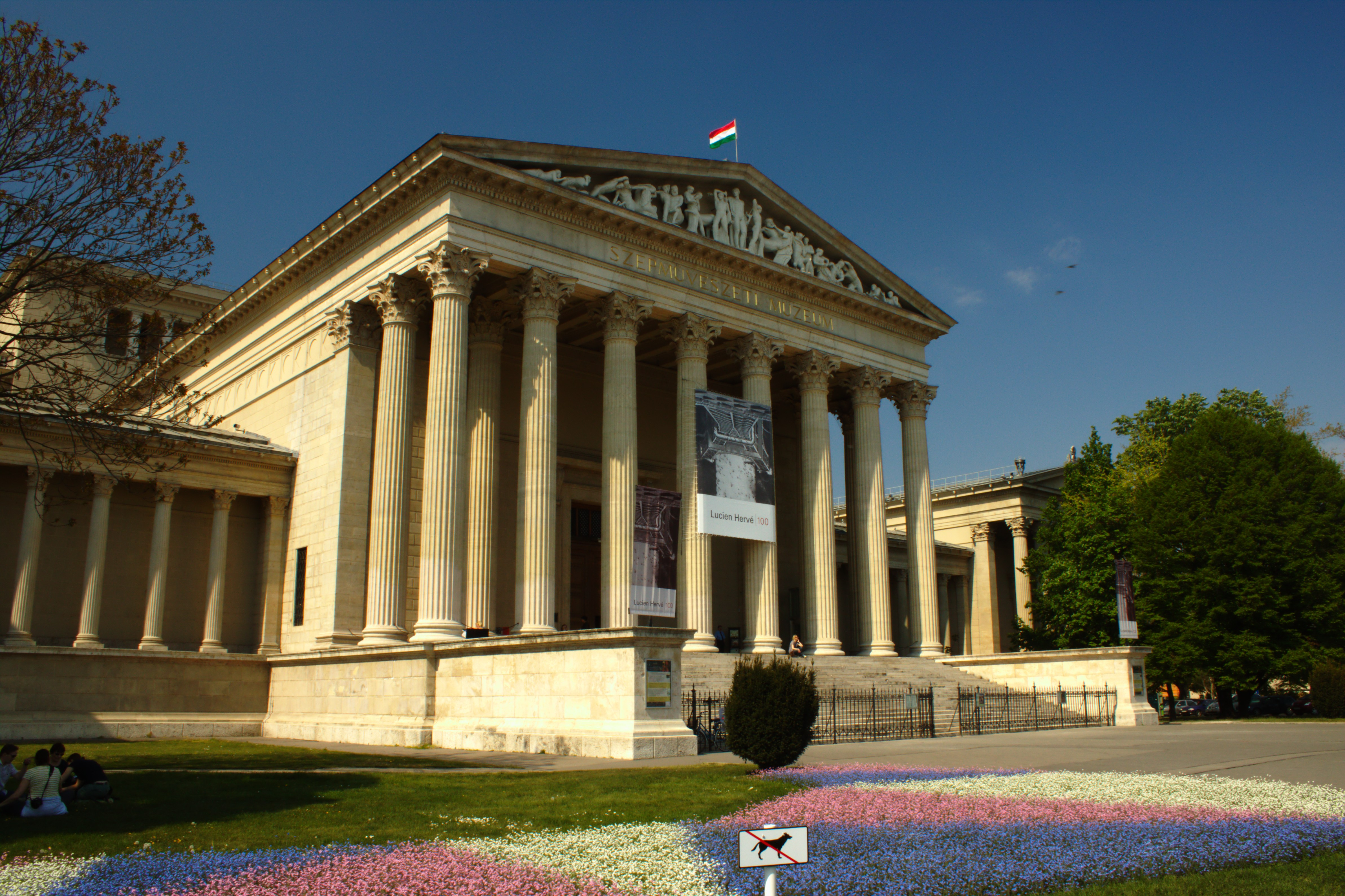 Budapest Museum of Fine Arts at Hösök tére Square in april 2011, Hungary